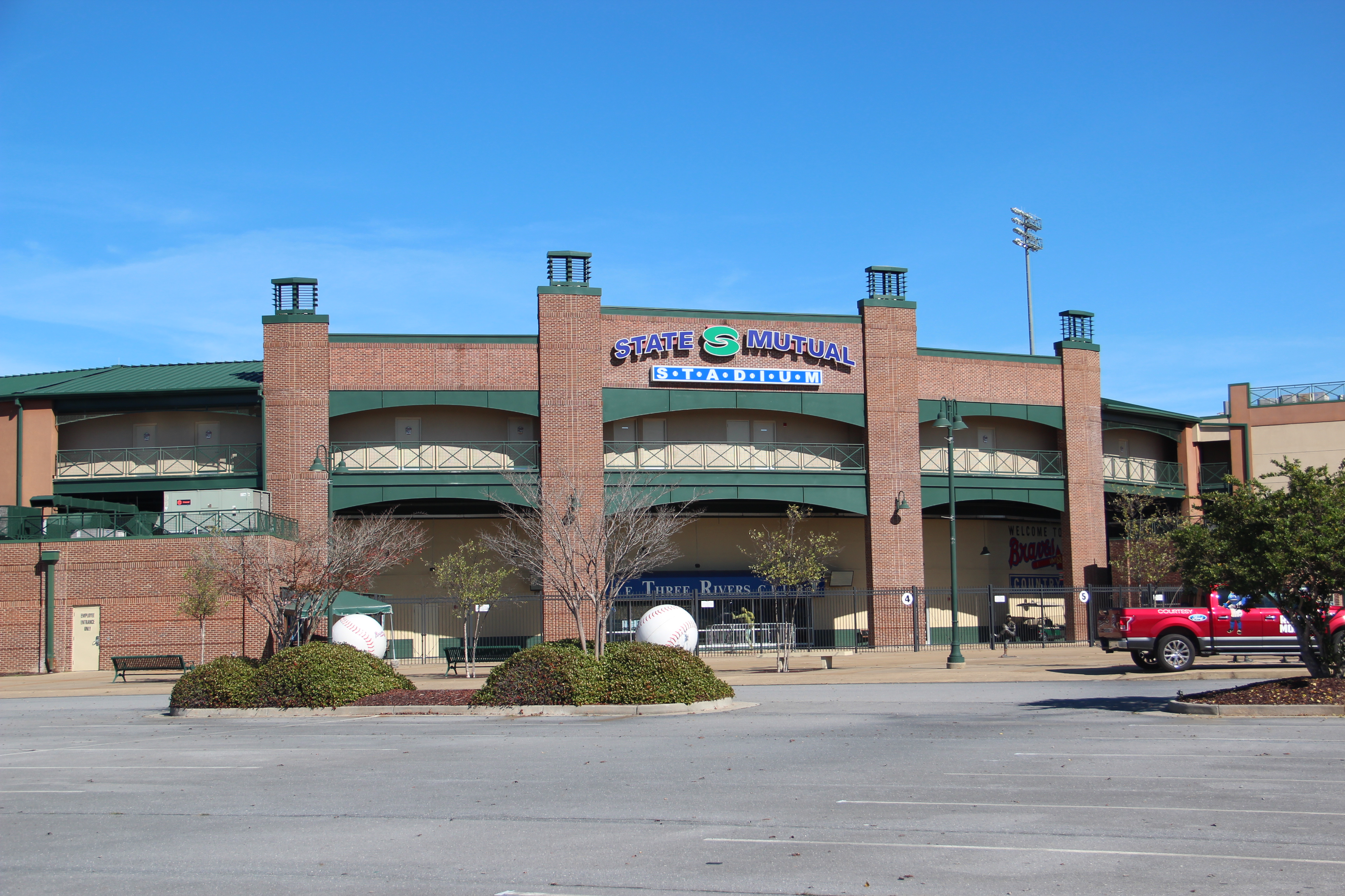 State Mutual Stadium, Rome, GA